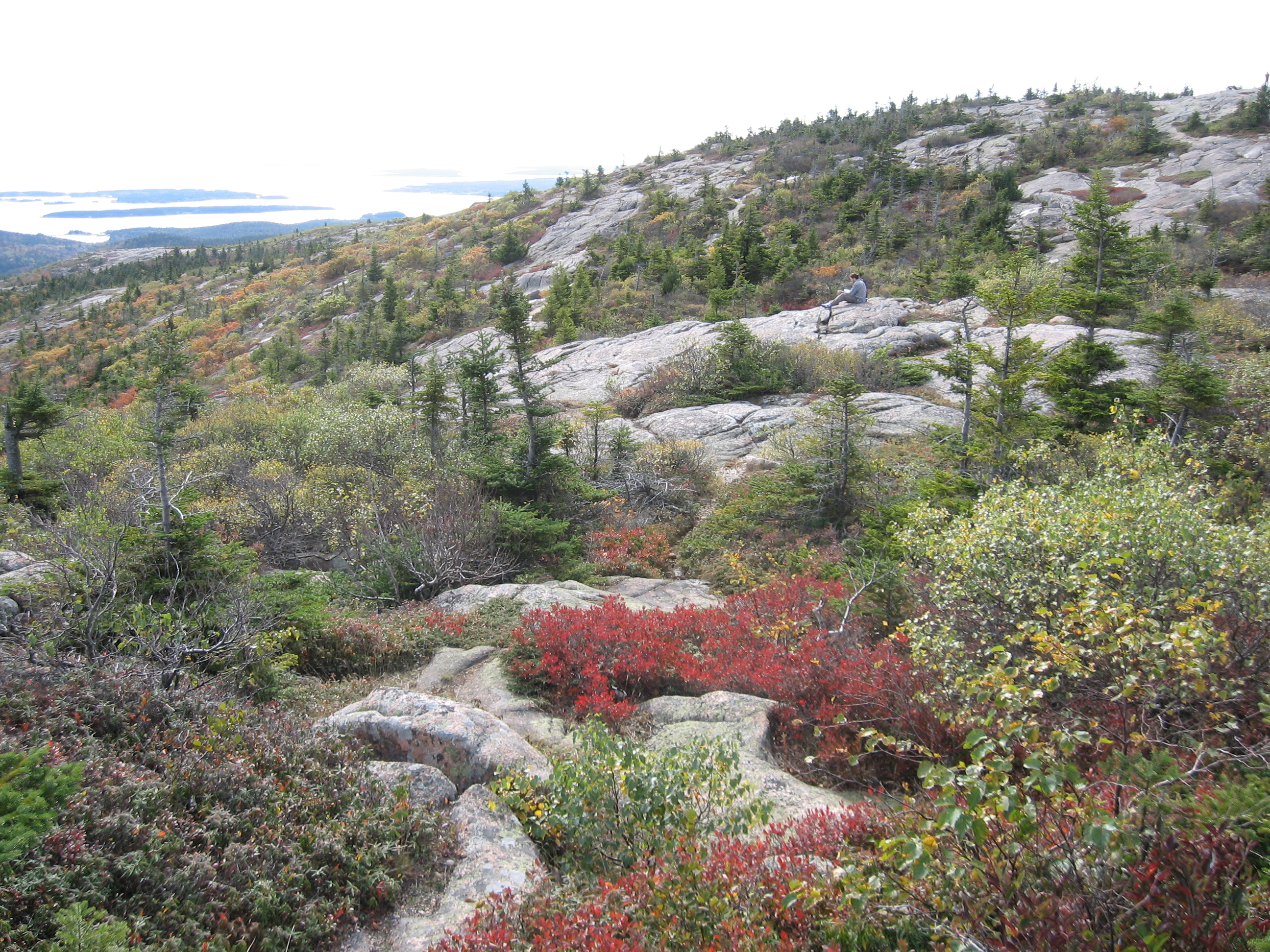 Cadillac Mountain, Acadia National Park, Maine